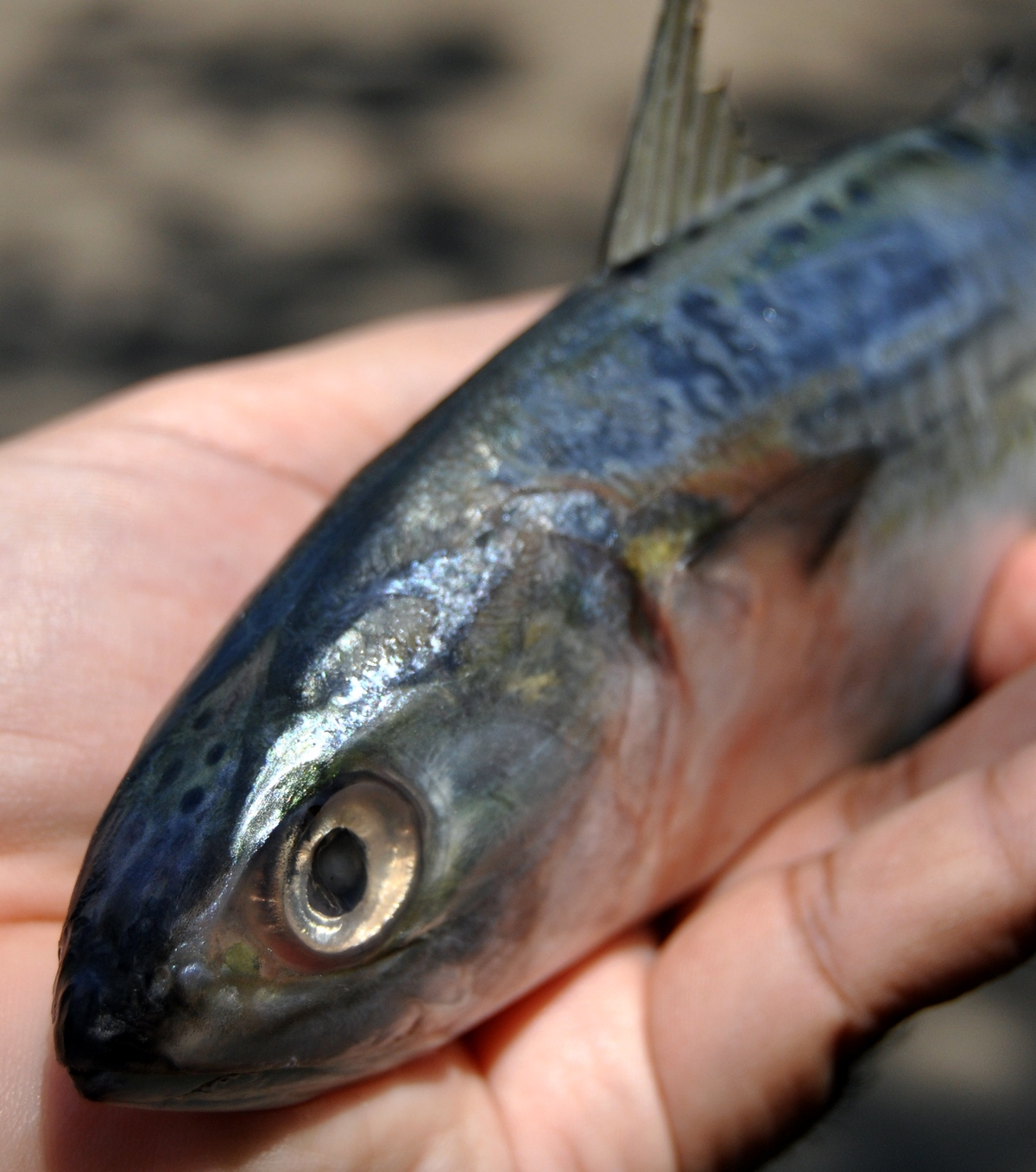 Indian mackerel Rastrelliger kanagurta from Jakarta, Indonesia. FL 216 mm. Head region.